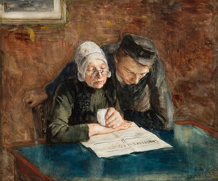 The Enkhuizer Journal